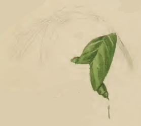 Stainton’s Natural History of the Tineina (1855–1873): Calybites phasianipennella - a sprig of Polygonum hydropiper with a leaf cut and rolled up into two cones by the larva